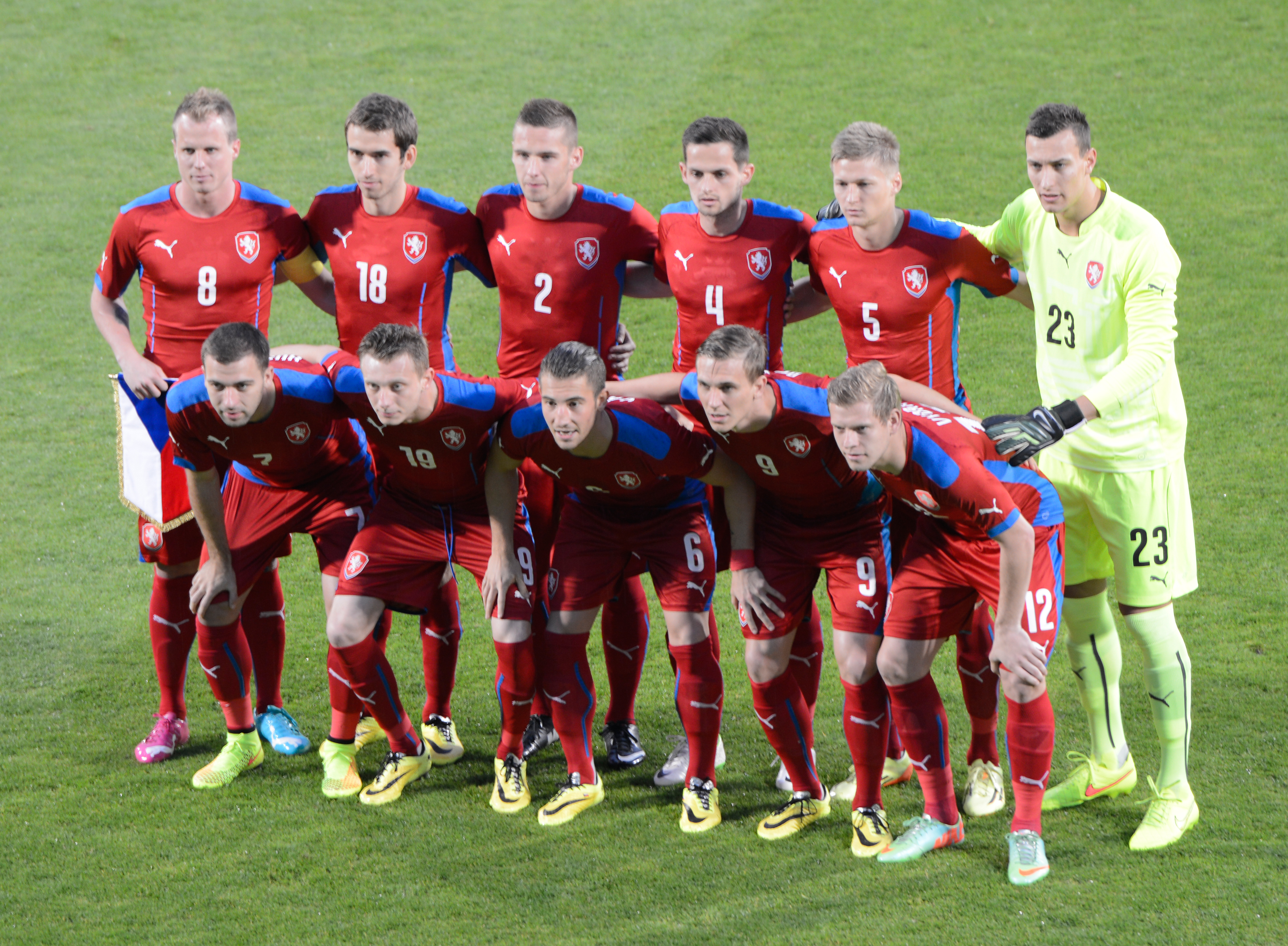 Czech Republic football team in Olomouc before the match against Austria. Lineup (L-R) back row: David Limberský, Tomáš Hořava, Pavel Kadeřábek, Mario Holek, Václav Procházka, Marek Štěch. Front row: Josef Hušbauer, Ladislav Krejčí, Lukáš Vácha, Bořek Dočkal, Matěj Vydra.